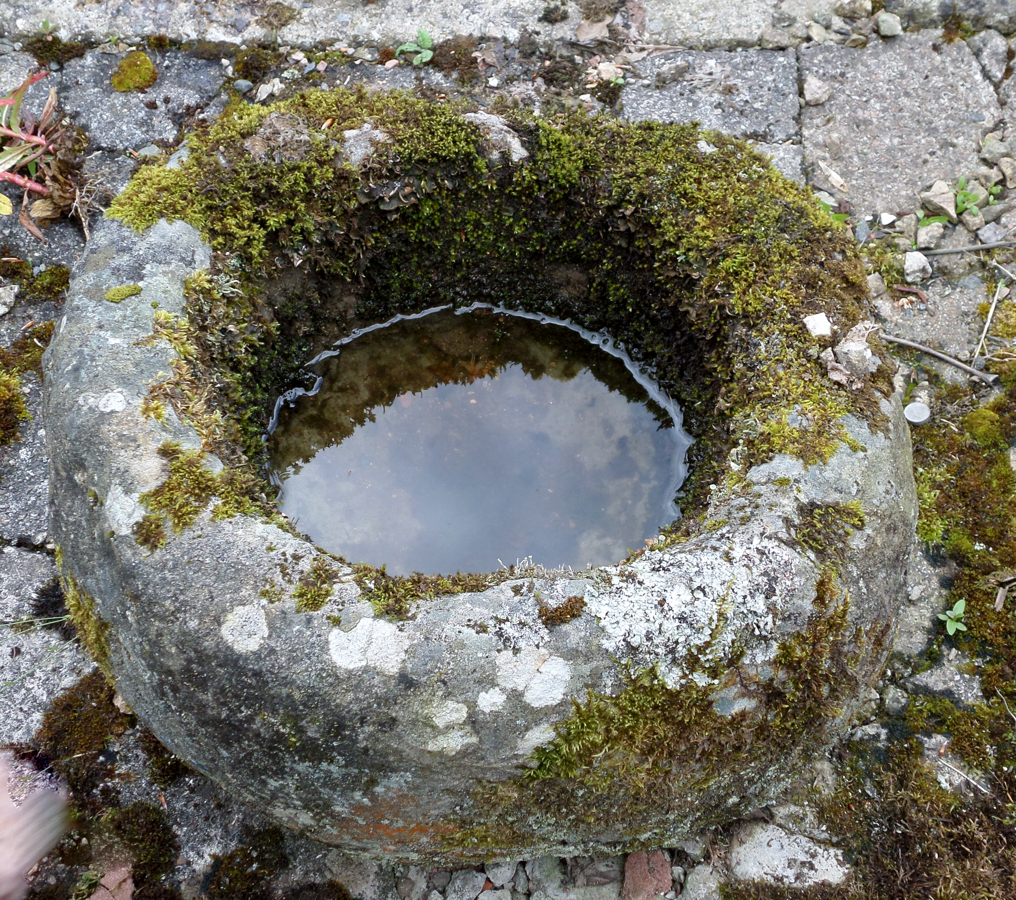 Detail of a possible font from the ancient chapel near Dalgarven, North Ayrshire, Scotland.